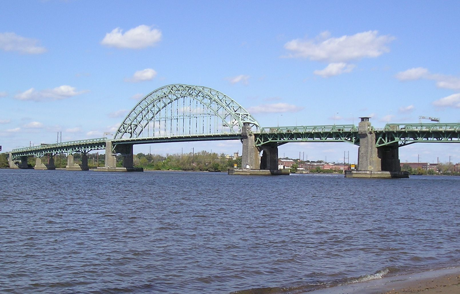 View of Bridge looking north from New Jersey Shoreline.